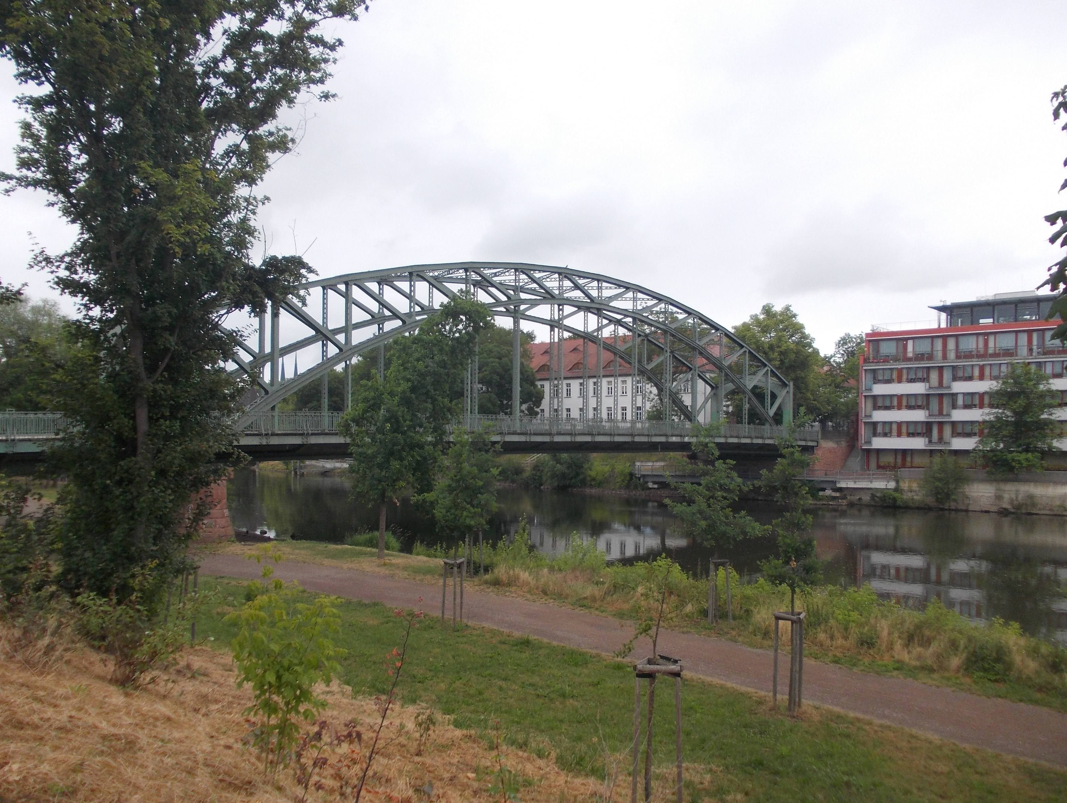 Genzmer Bridge over the Saale river in Halle (Saxony-Anhalt)